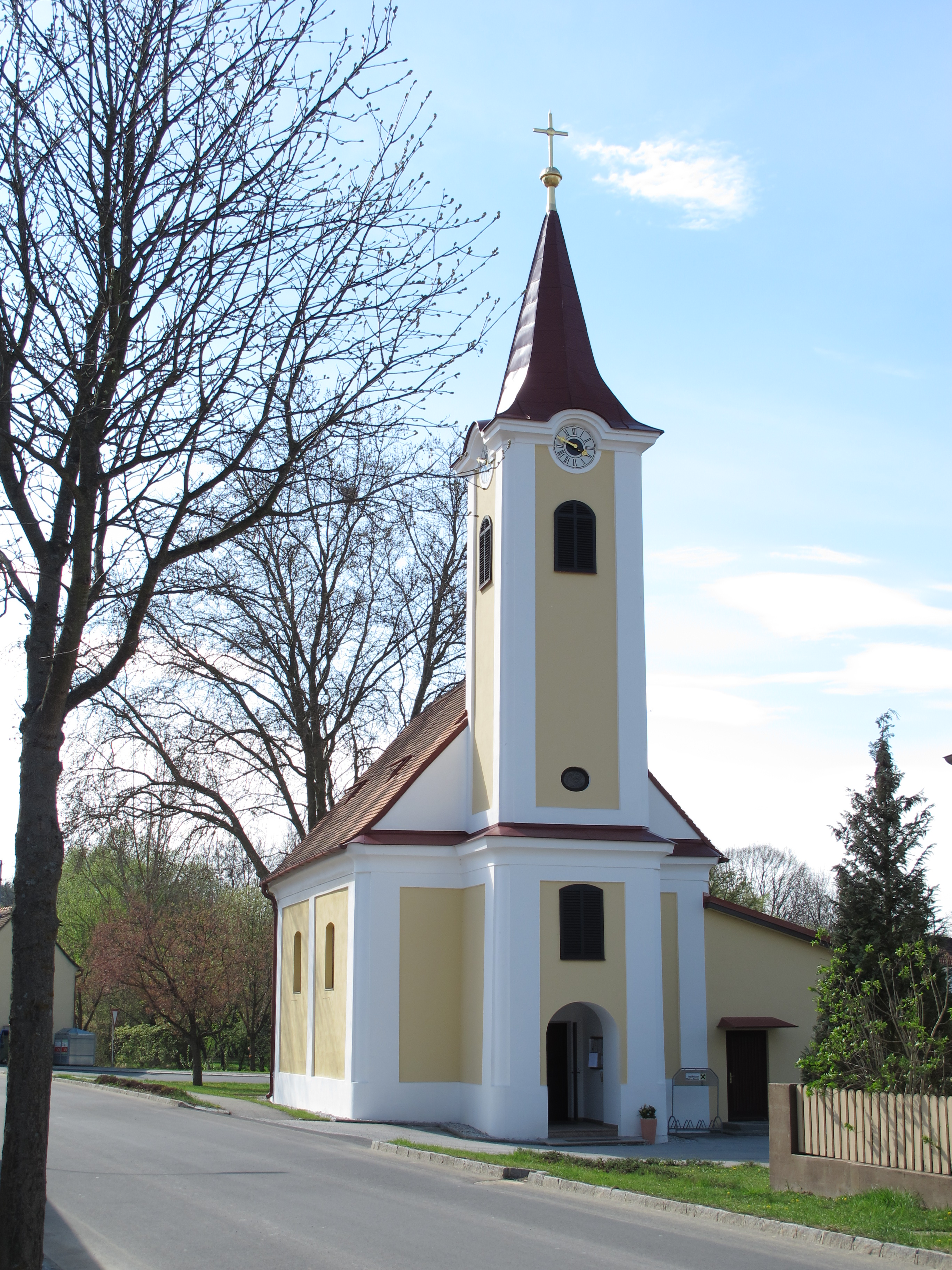 Kirche Eisenzicken